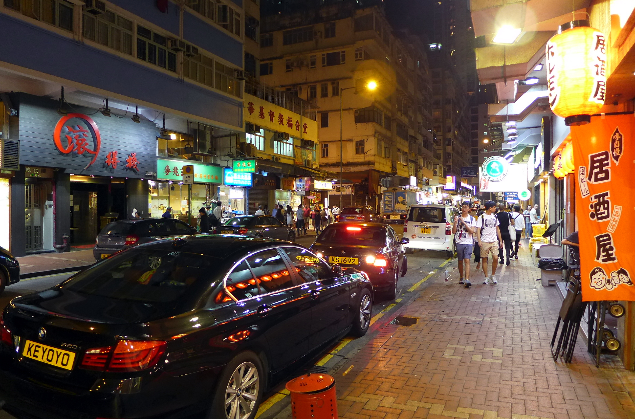 Electric Road Near Tin Hau